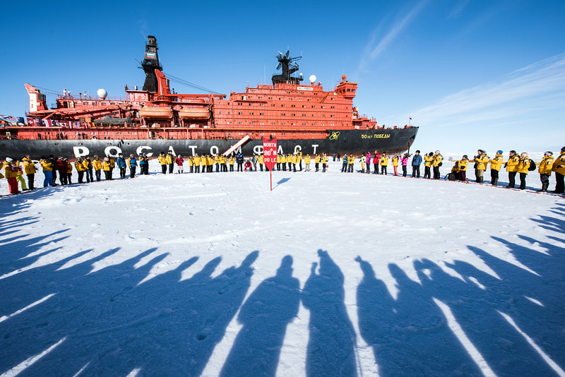 500px provided description: The North Pole And Nuclear Icebreaker 50 Years Of Victory [#ice ,#arctic ,#north pole ,#Christopher Michel ,#50 years of victory]